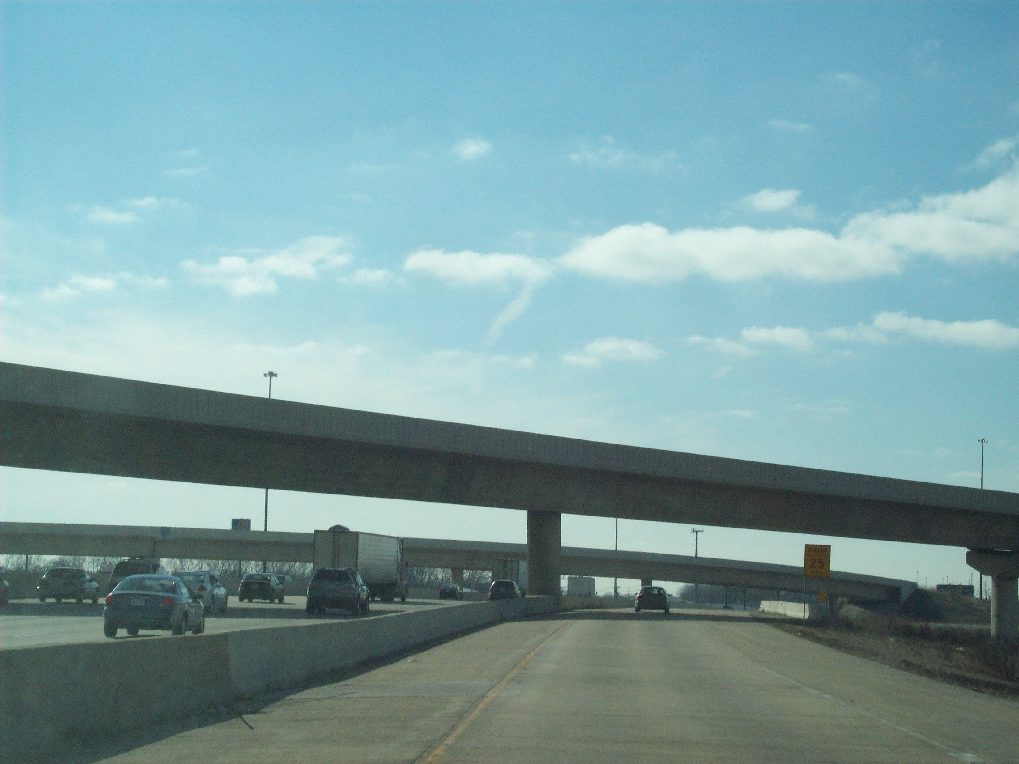 Borman at SR 912 Cline Avenue